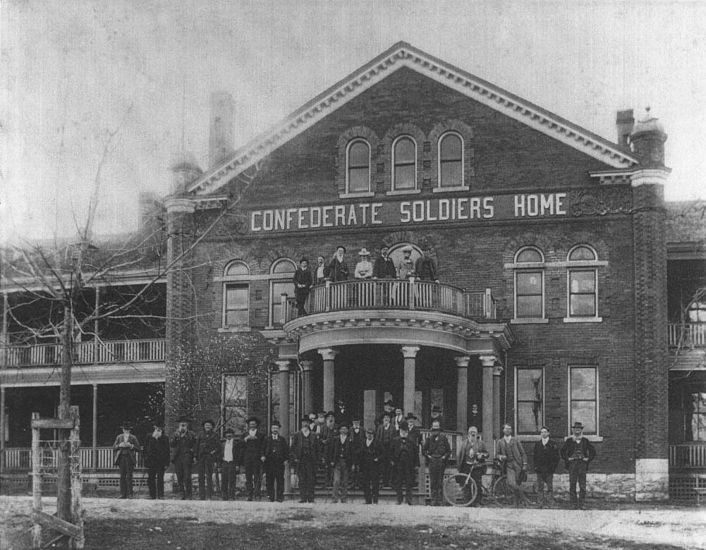 Confederate veterans in front of Confederate Soldiers' Home on the grounds of the Hermitage, Nashville, Tennessee.